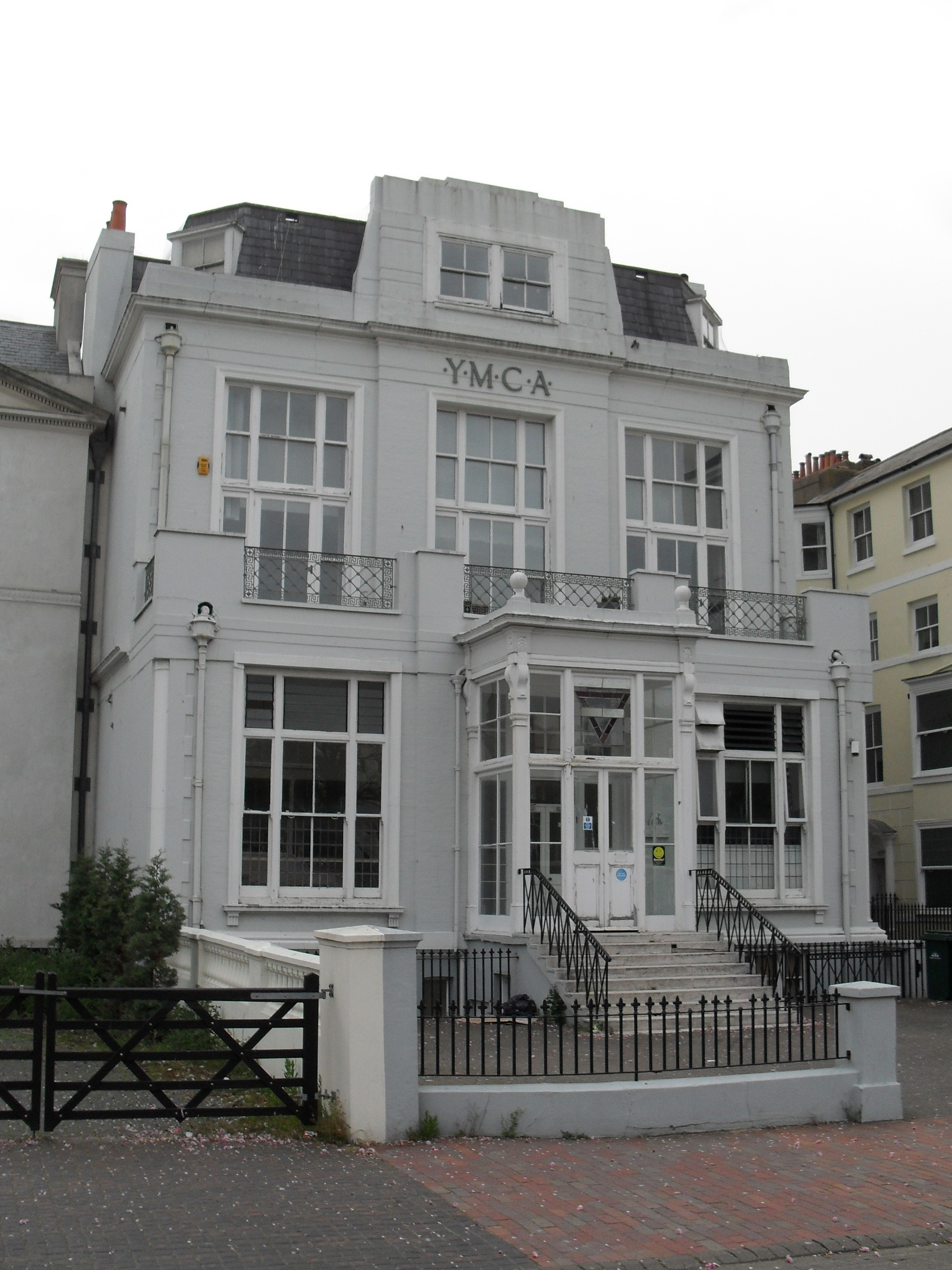 Steine House, 55 Old Steine, Brighton, City of Brighton and Hove, East Sussex, England. Built for Maria Fitzherbert in 1804 by WIlliam Porden, but significantly altered (particularly in 1927). Now a YMCA hostel. Listed at Grade II by English Heritage (IoE Code 480996)